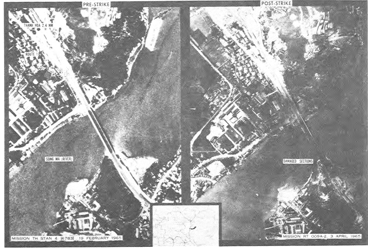 The Thanh Hoa Bridge in Vietnam before and after destruction by the US Air Force.